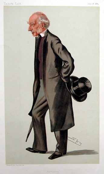 Caricature of Charles John Ellicott (1819 – 1905) Caption read "Revision".